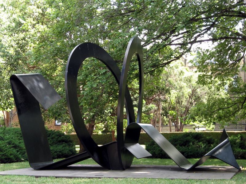 Inge King's Sun Ribbon provides the students of University of Melbourne with a unique resting place among its massive unfurling bands, and is the focal point of one of the University's busiest thoroughfares, the Union Lawn. The sculpture is formed in 19mm-thick steel, by two upright flat, circular bands, each 360 cm, in diameter, and three folder 'rectangular' planes comprising a total ensemble length of 600 cm.